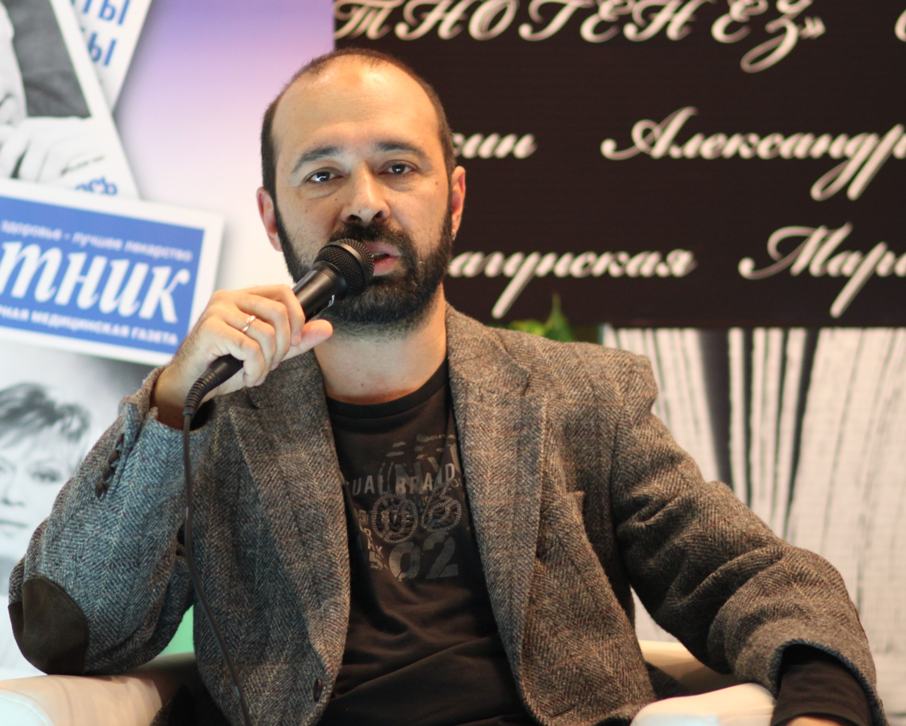 Sergey Kuznetsov, Russian writer, journalist, culturologist